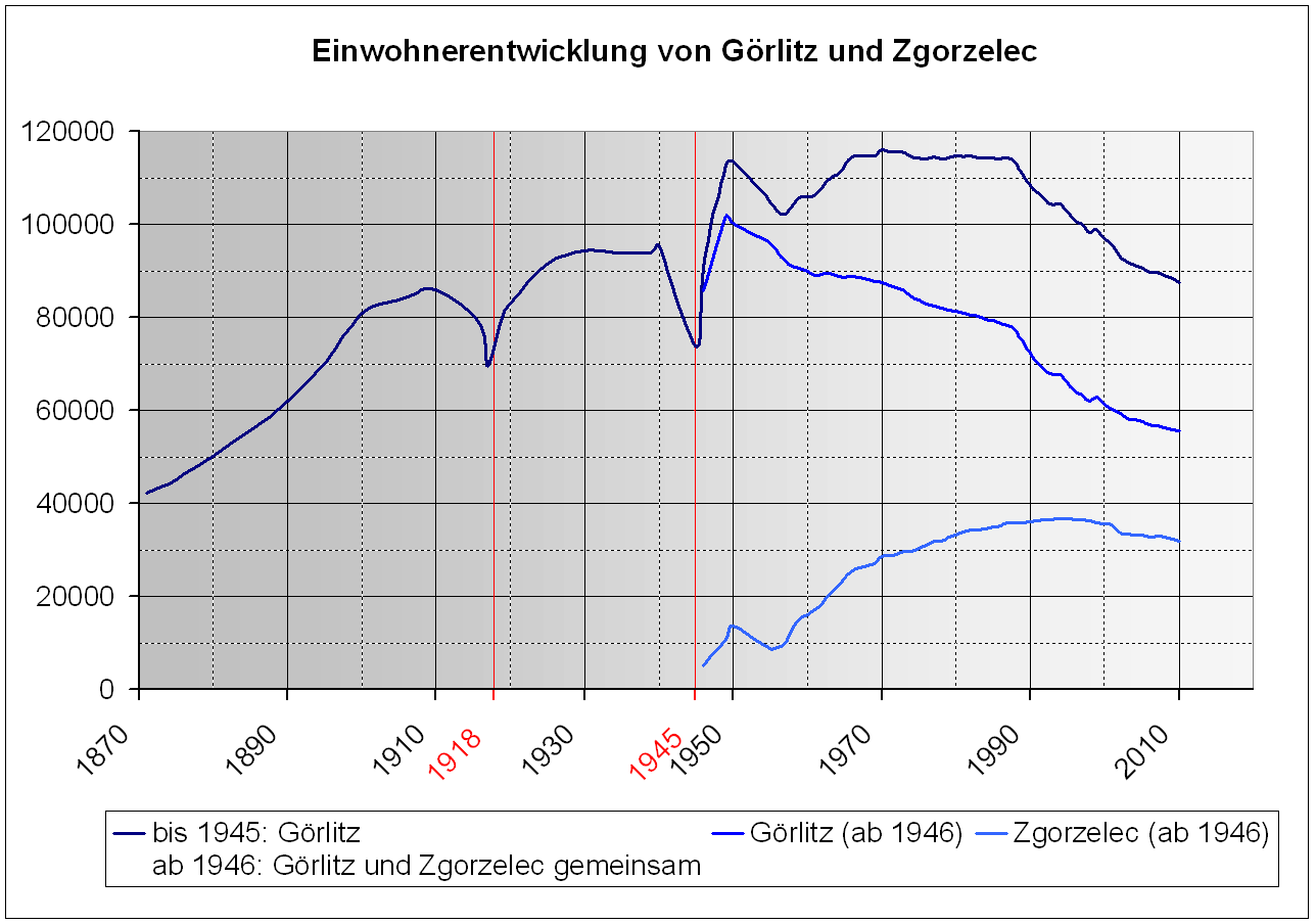 The diagram shows the demographic development of the German town Görlitz in Saxony and its Polish neighbouring town Zgorzelec in Lower Silesia between 1870 and 2010. Zgorzelec was a quarter of Görlitz until 1945.